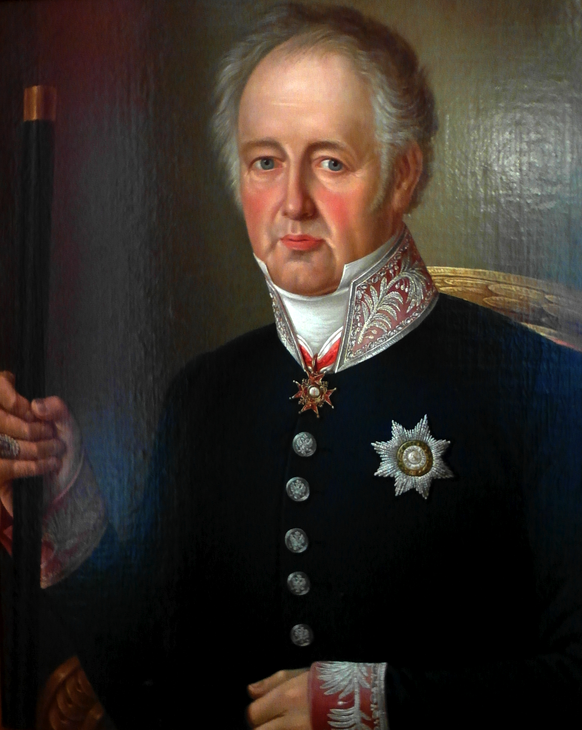 Stanisław Piwnicki